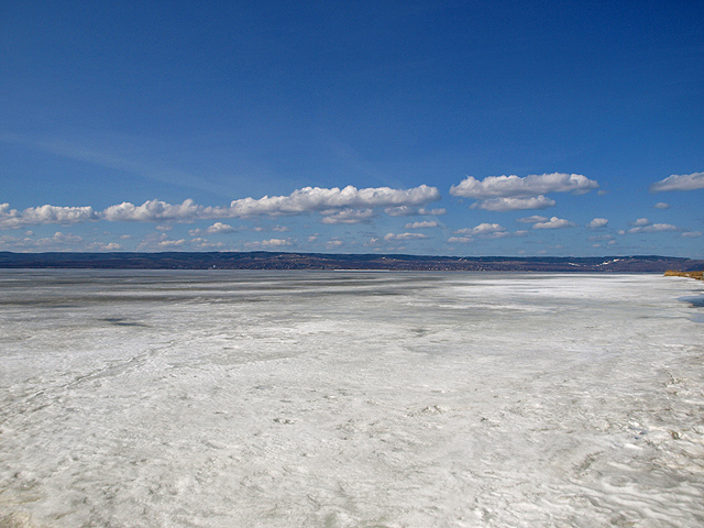 Frozen Saratov Reservoir in the Duhovnitskiy rayon.